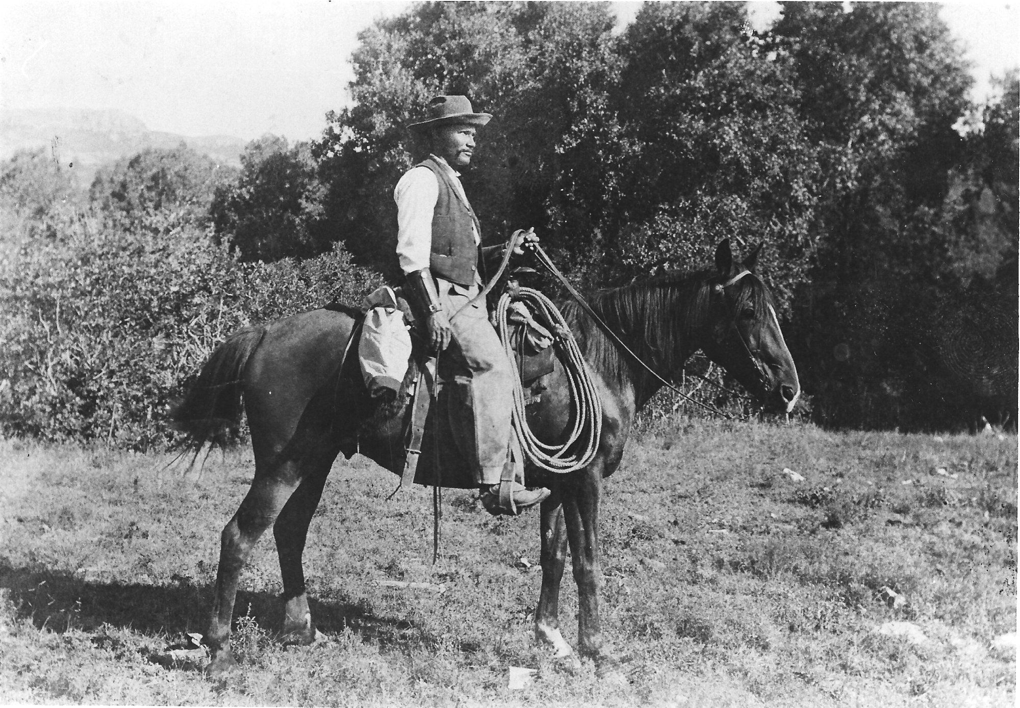 George McJunkin photo c.1907